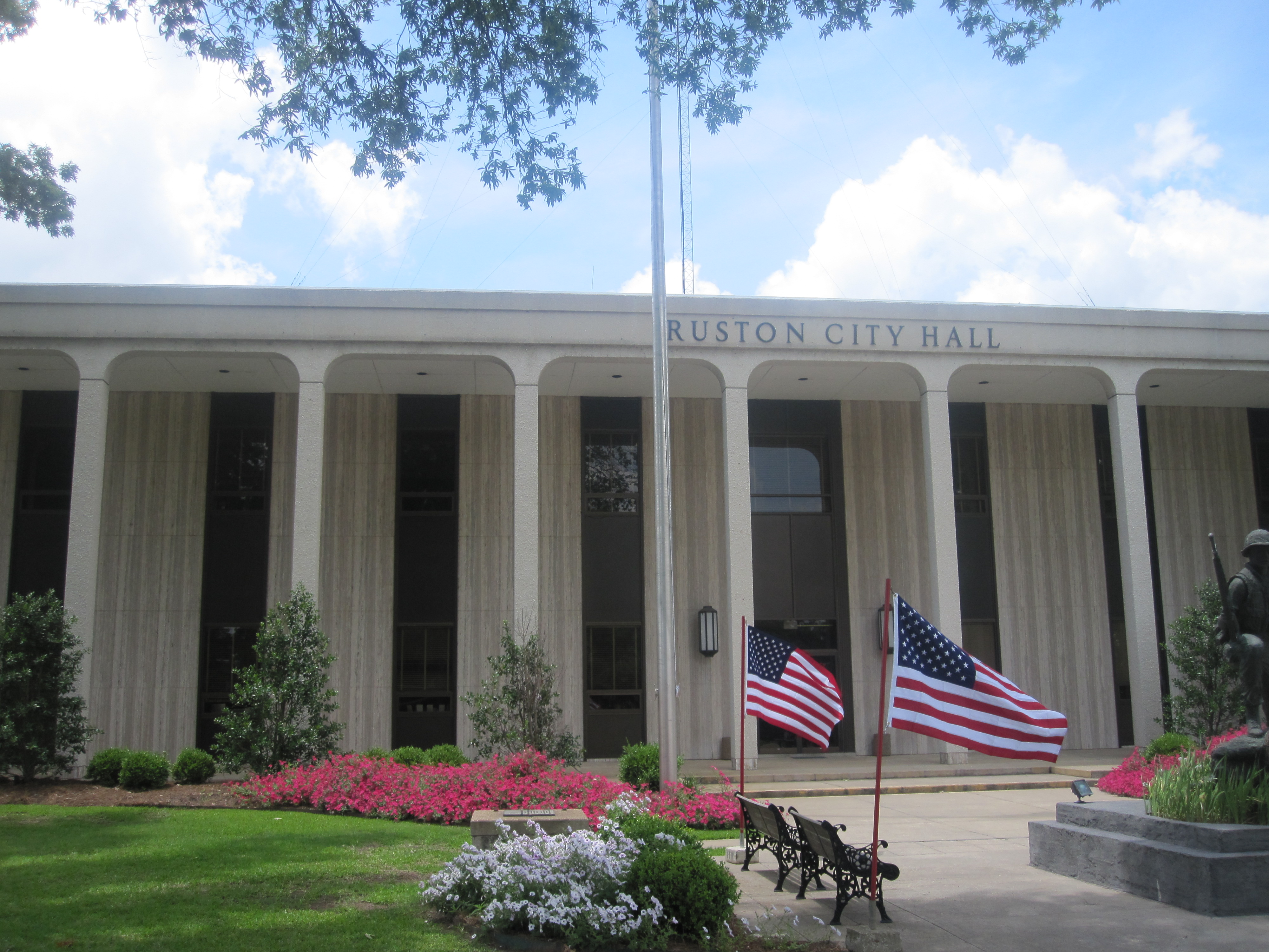 I took photo with Canon camera.